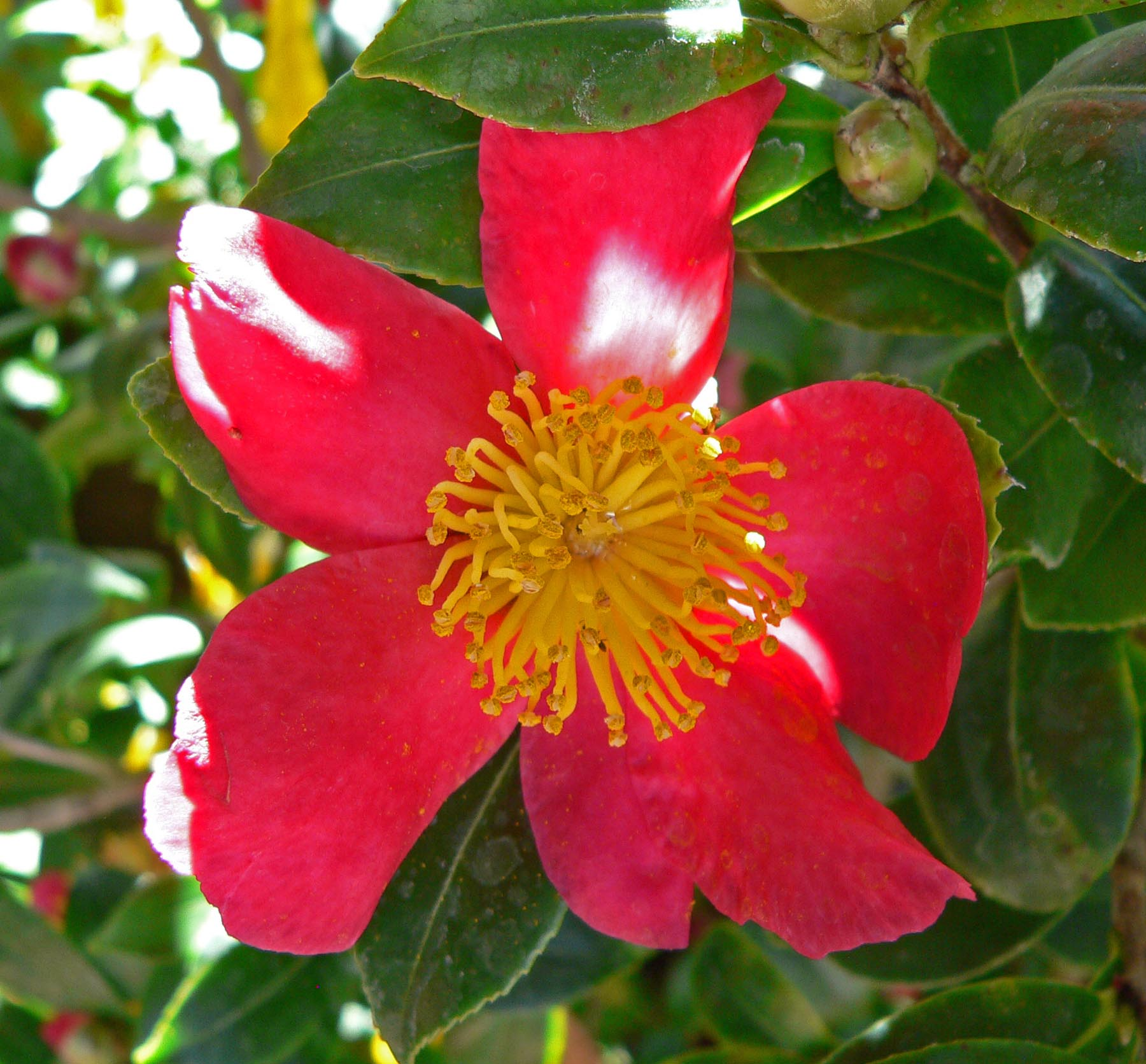 Photo of Camellia sasanqua 'Yuletide' at Balboa Park